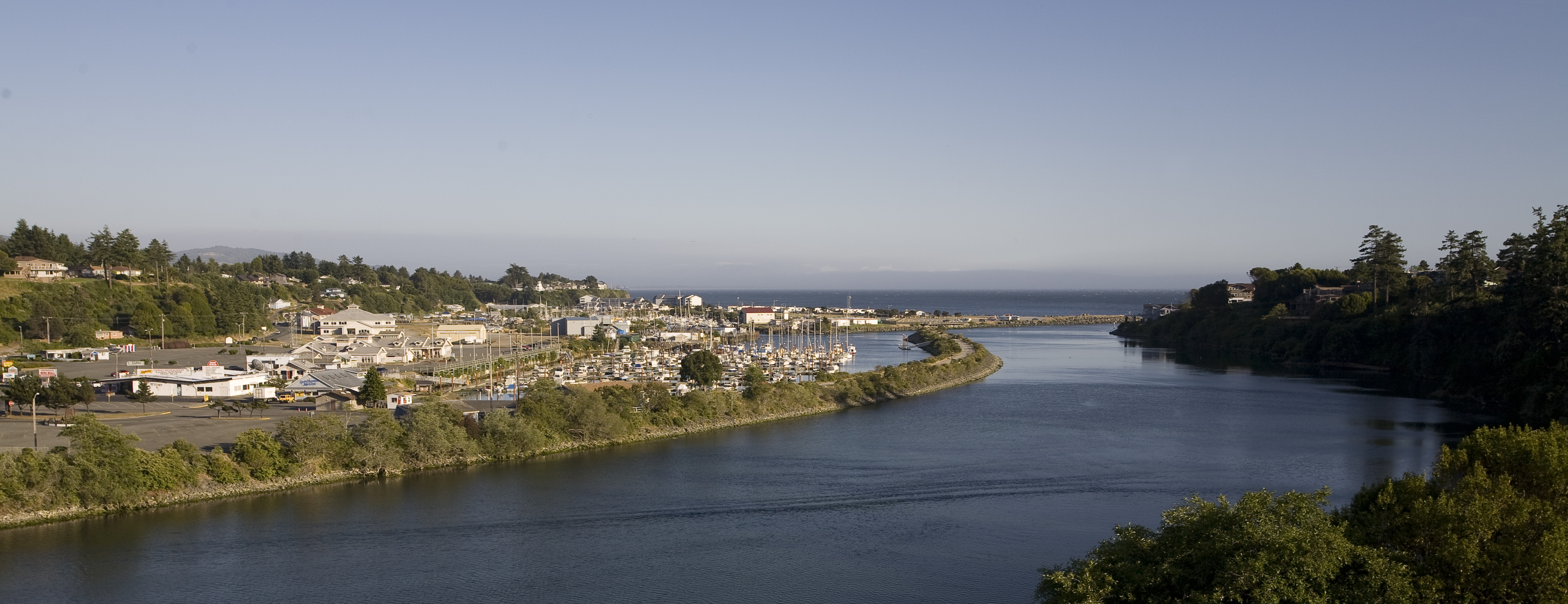 The mouth of the Chetco River and Brookings Harbor — in Brookings, Curry County, SW Oregon.